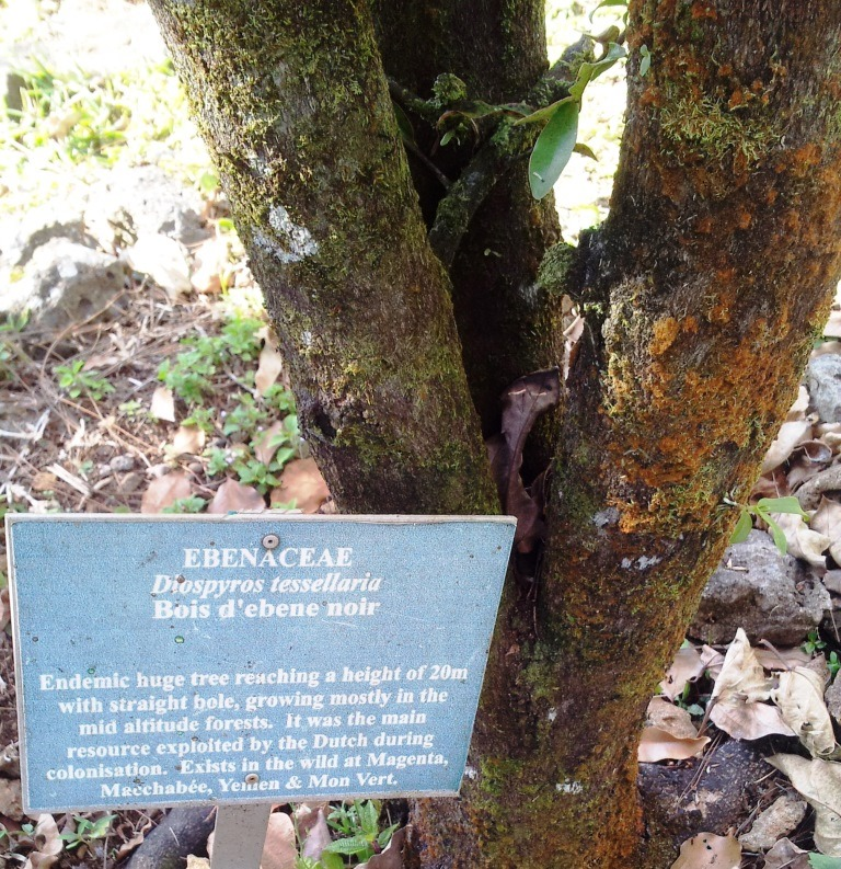 Diospyros tessellaria - foliage of bois d ebene noir - Monvert